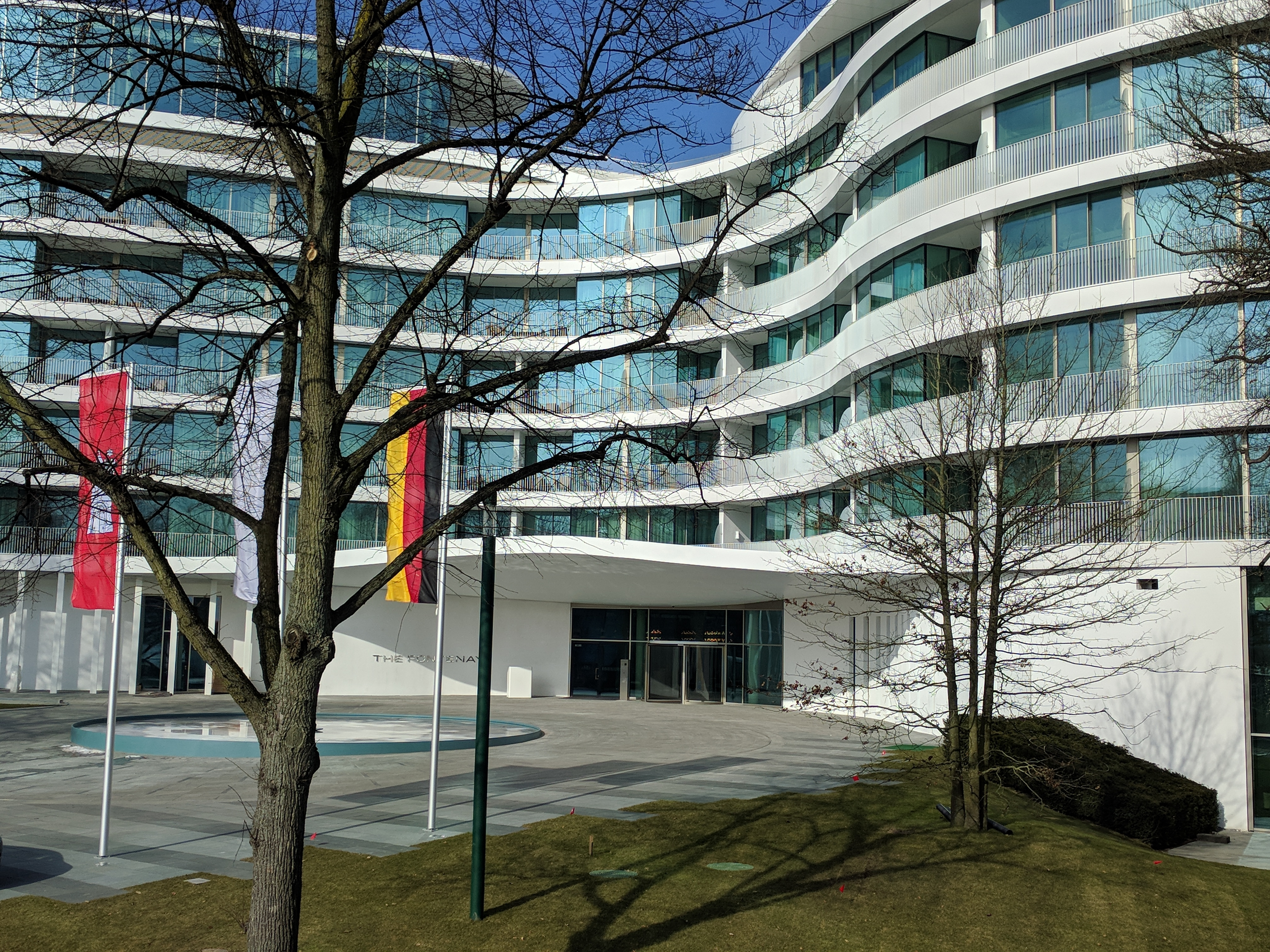 The Fontenay Hamburg in pre-openting phase march 2018, located at lake Alster in Hamburg-Rotherbaum. Member of The Leading Hotels of the World